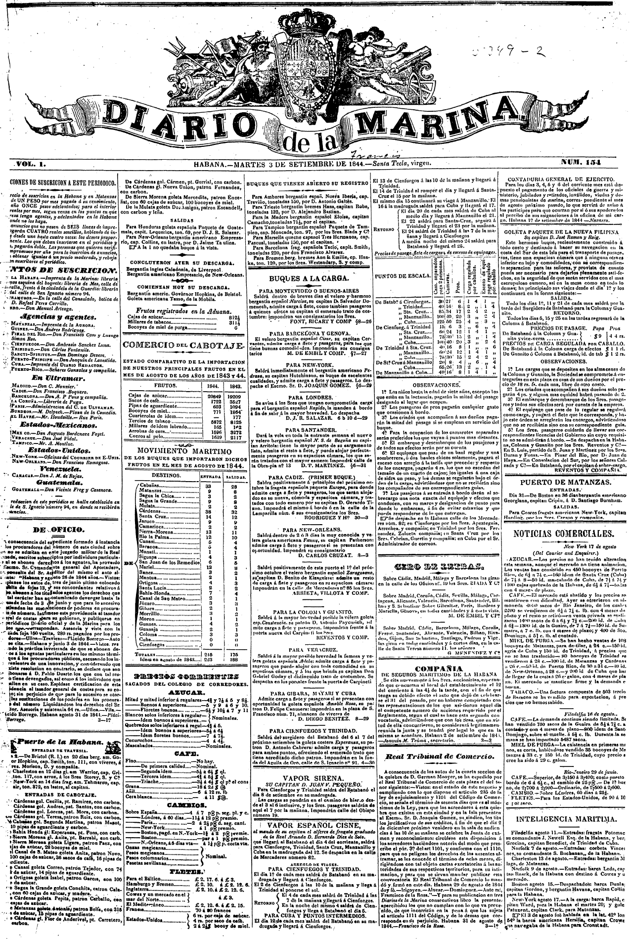 Front page of Cuban newspaper Diario de la Marina, September 3rd, 1844